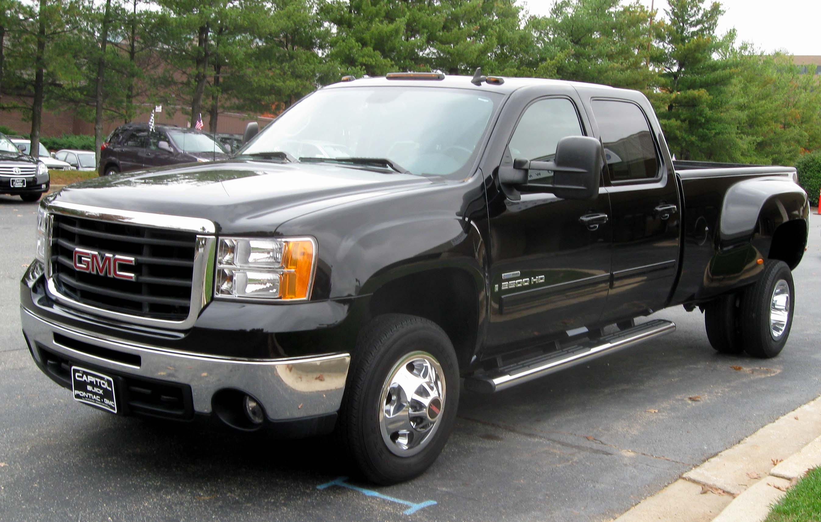 2008 GMC Sierra 3500 photographed in Greenbelt, Maryland, USA.